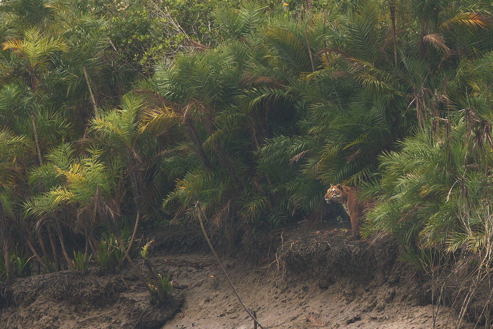 Scientific studies done on Sundarban tigers suggest that these big cats spend maximum amount of time in the Phoenix Paludosa (local name Hental) bushes. This species of palm is also called tiger palm because of the coloration its leafs. A brilliant place for the tigers to camouflage. Photographed in Sundarban Tiger Reserve, West Bengal, India.